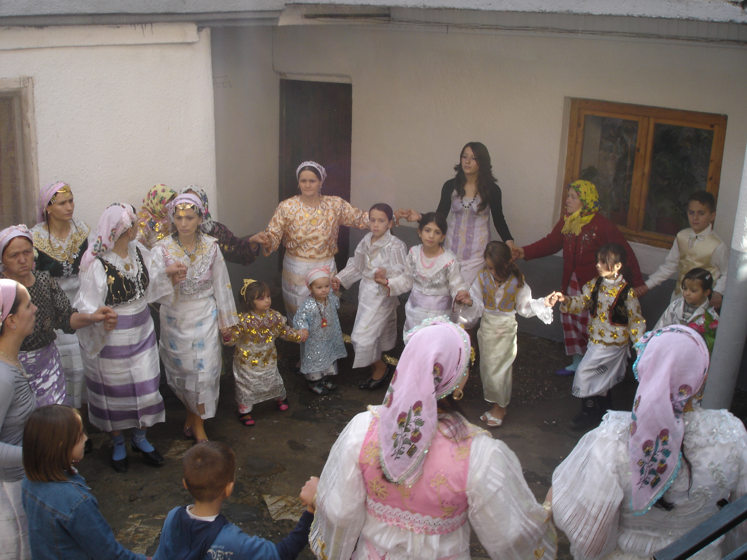 Female folk dance of Macedonian Muslims in the village of Gorno Kosovrasti, near Debar, Macedonia